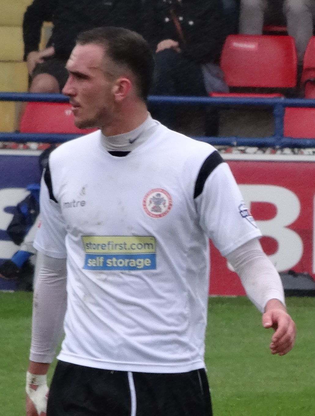 Tom Aldred.